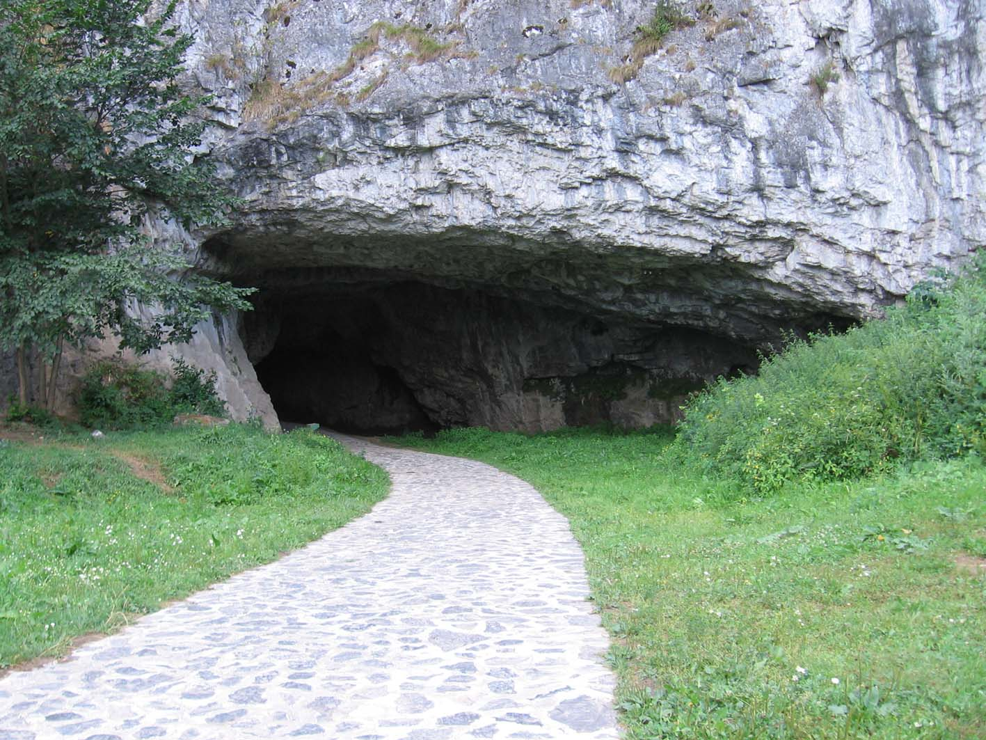 Entrance to Sloup-Šošůvka Caves in Moravian Karst, Czech Republic.